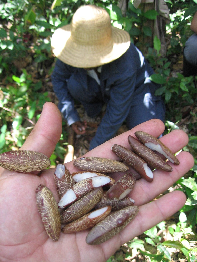 Woman breaking babassu/babaçu coconuts (Attalea speciosa) to obtain the oil-rich seeds. Itapecuru-Mirim, Maranhão State, Brazil